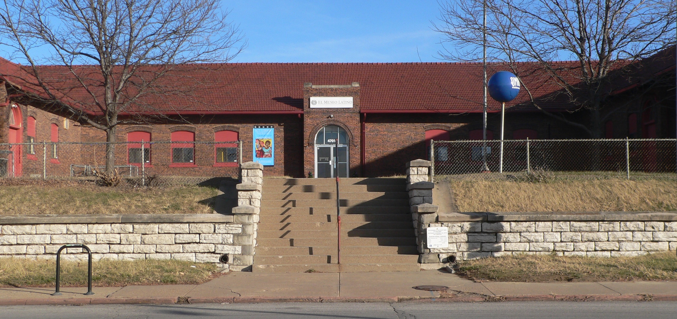 Museo Latino, located at 4701 S. 25th Street (southeast corner of 25th and L Streets) in Omaha, Nebraska. Central portion of building, seen from the west (from 25th).